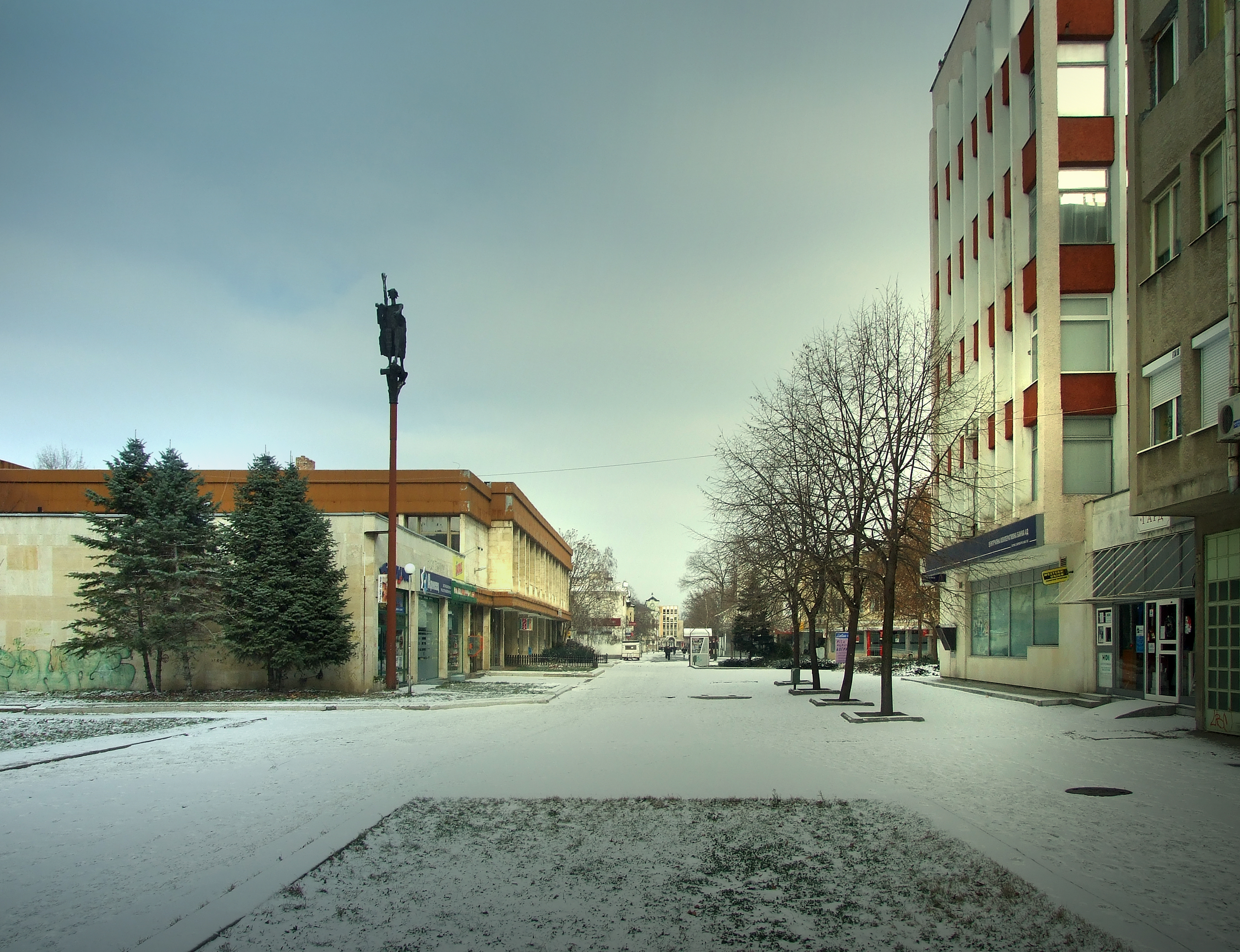 View from the central part of Targovishte, Bulgaria. A library on the left.